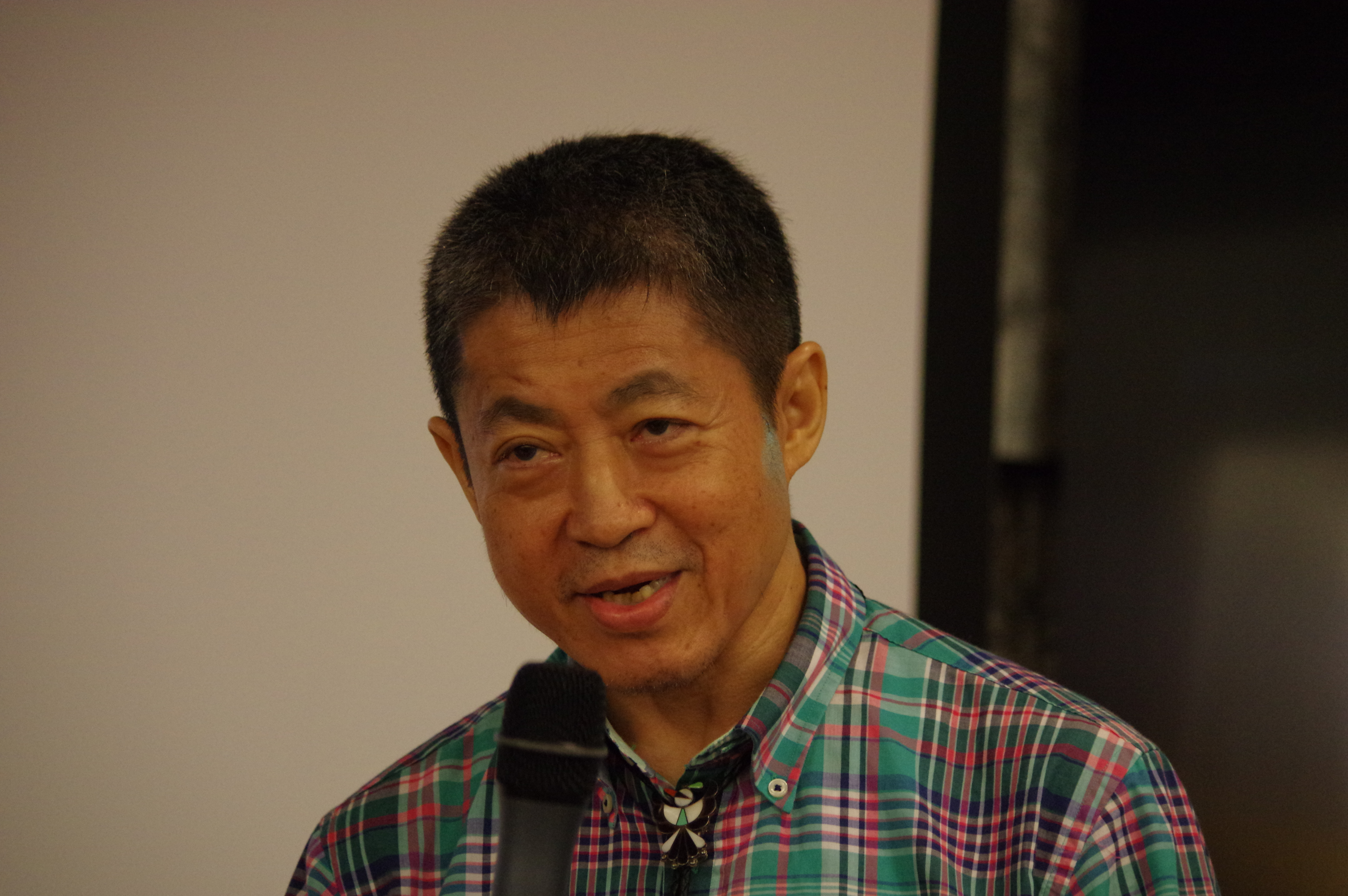 Typhoon Lee